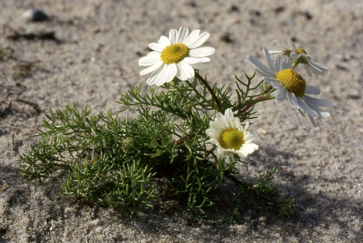 Tripleurospermum maritimum, Heligoland (Germany)